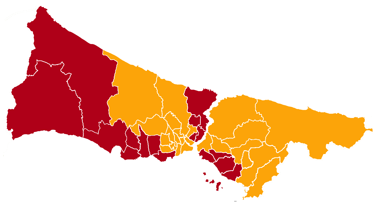 Districts won by Ekrem İmamoğlu (red) and Binali Yıldırım (orange)